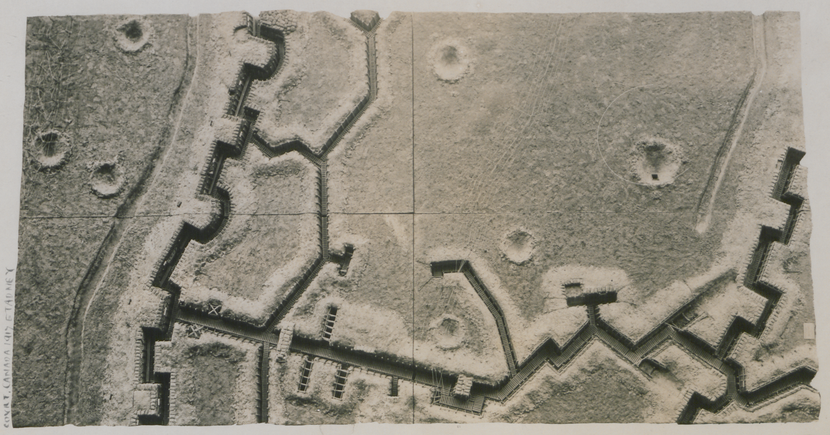 Original caption: “Model of a front line trench system. Number 1. New series.”